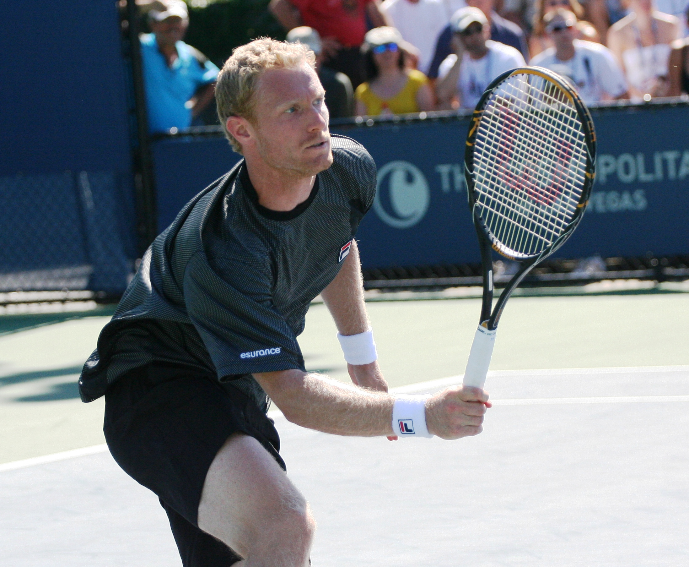 U.S. Open Monday, Aug. 30, 2010